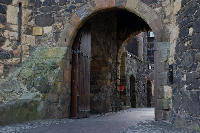 Carrickfergus castle (detail) (3) See 407085. This is the entrance to the castle.